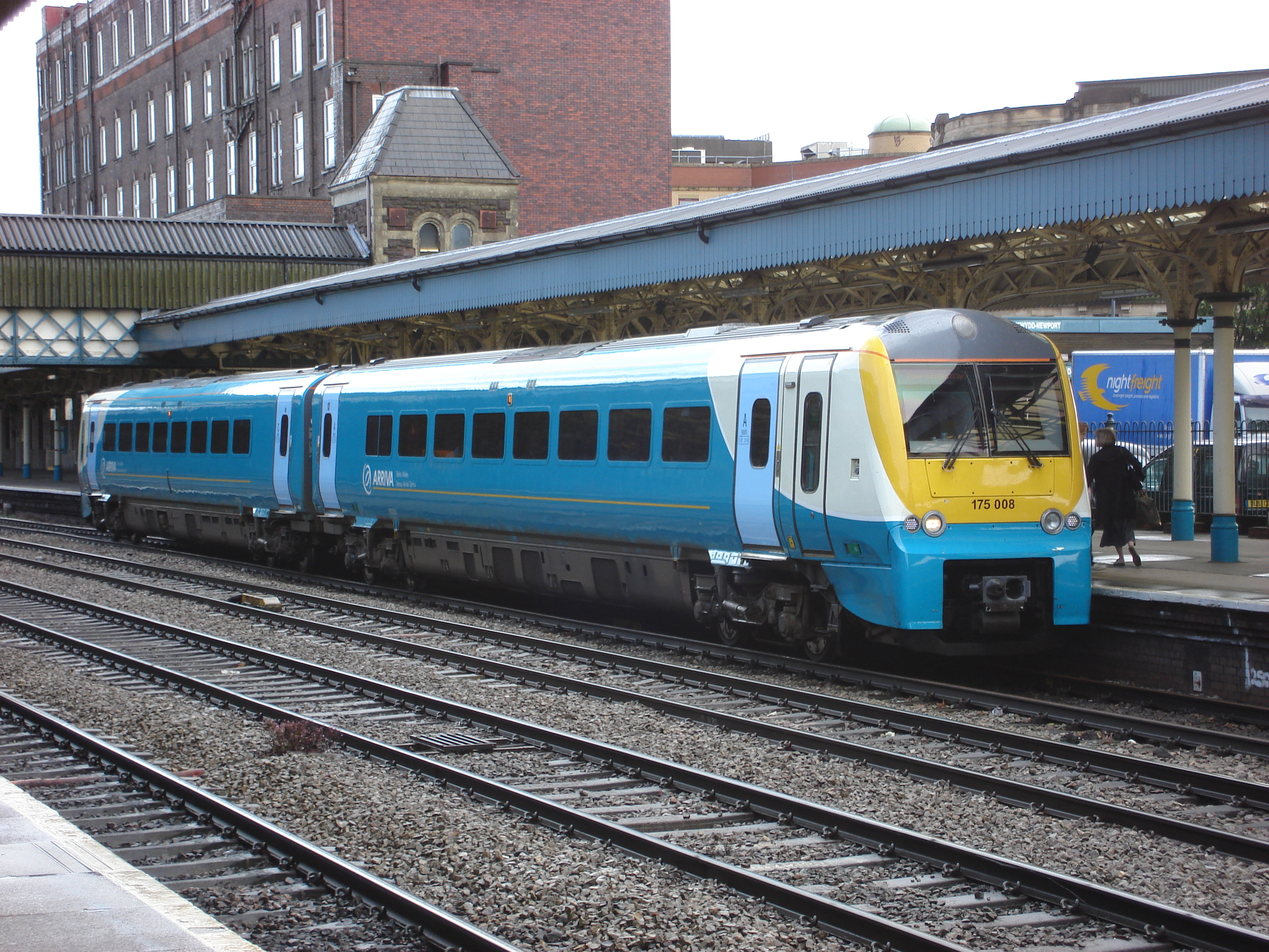 175008, a British Rail Class 175, at Newport Station.